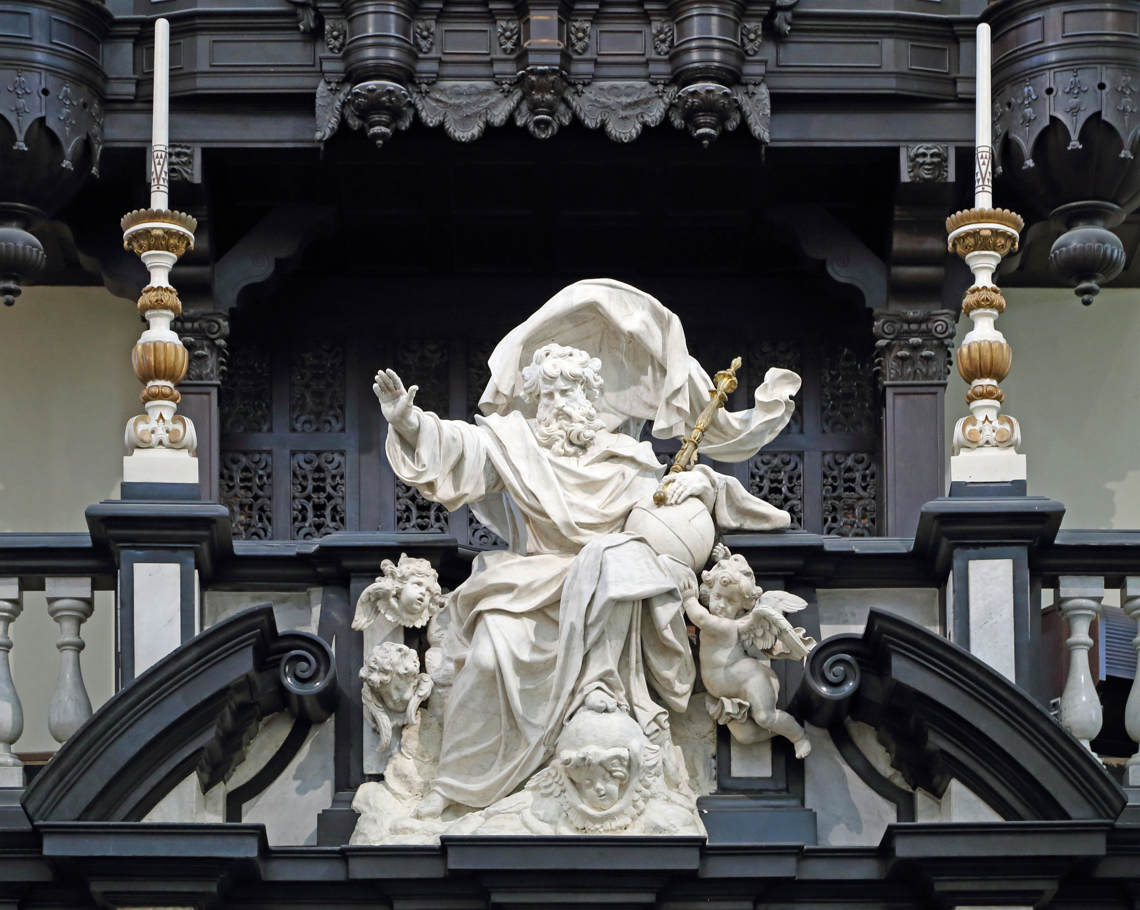 Sint-Salvators cathedral (Bruges, Belgium): statue of God the Father by sculptor Artus Quellinus the Younger (1625-1700)